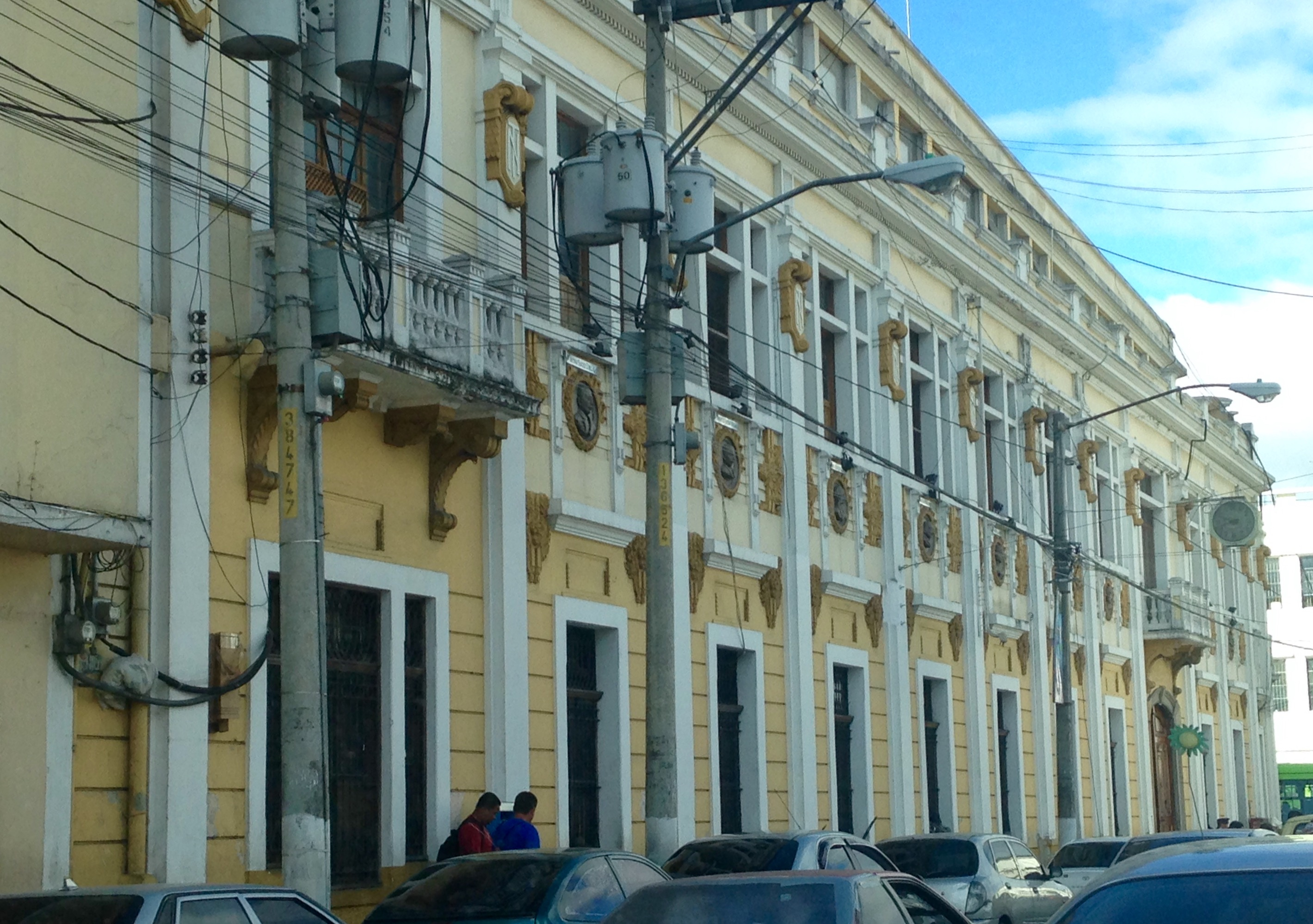 Tipografía Nacional de Guatemala en enero de 2016.